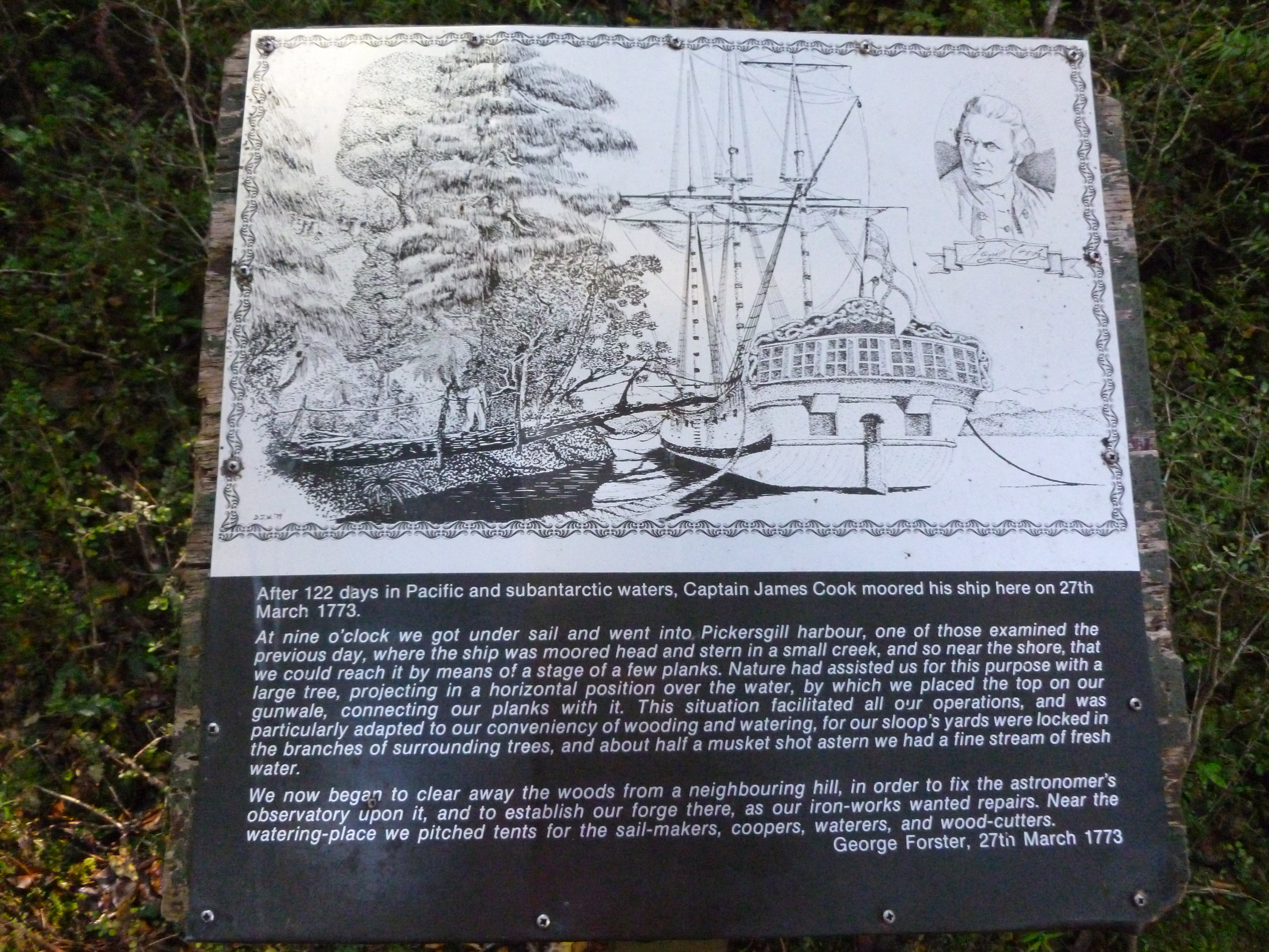 A description of Captain James Cook's visit to Pickersgill Harbour, Dusky Sound, New Zealand, during his second Pacific voyage of discovery